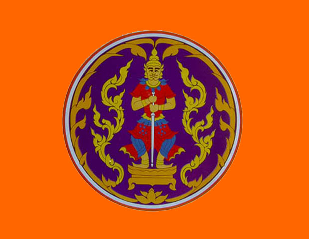 Flag of Udon Thani Province